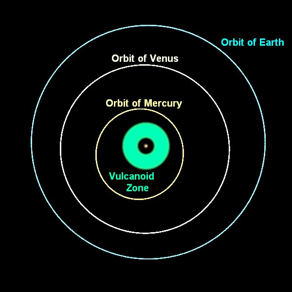 The gravitationally stable zone in which Vulcanoid asteroids might exist